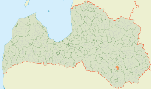 Vārkava parish location map (Latvia)